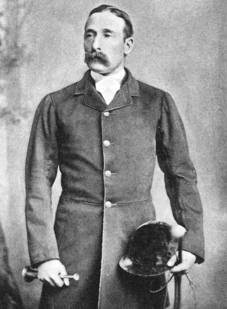 Henry Verney, 18th Baron Willoughby de Broke (1844-1902), from 1876 Master of the Warwickshire Hunt (the kennels of which were at Kineton, near his seat of Compton Verney), which office had also been exercised by his father between 1839-56. He was the author of "Advice on Fox-Hunting", published in 1906, with preface by his son the 19th Baron, also a notable author on foxhunting. Shown here dressed seemingly as the Huntsman, with hunting horn, not in the more formal attire of Master.